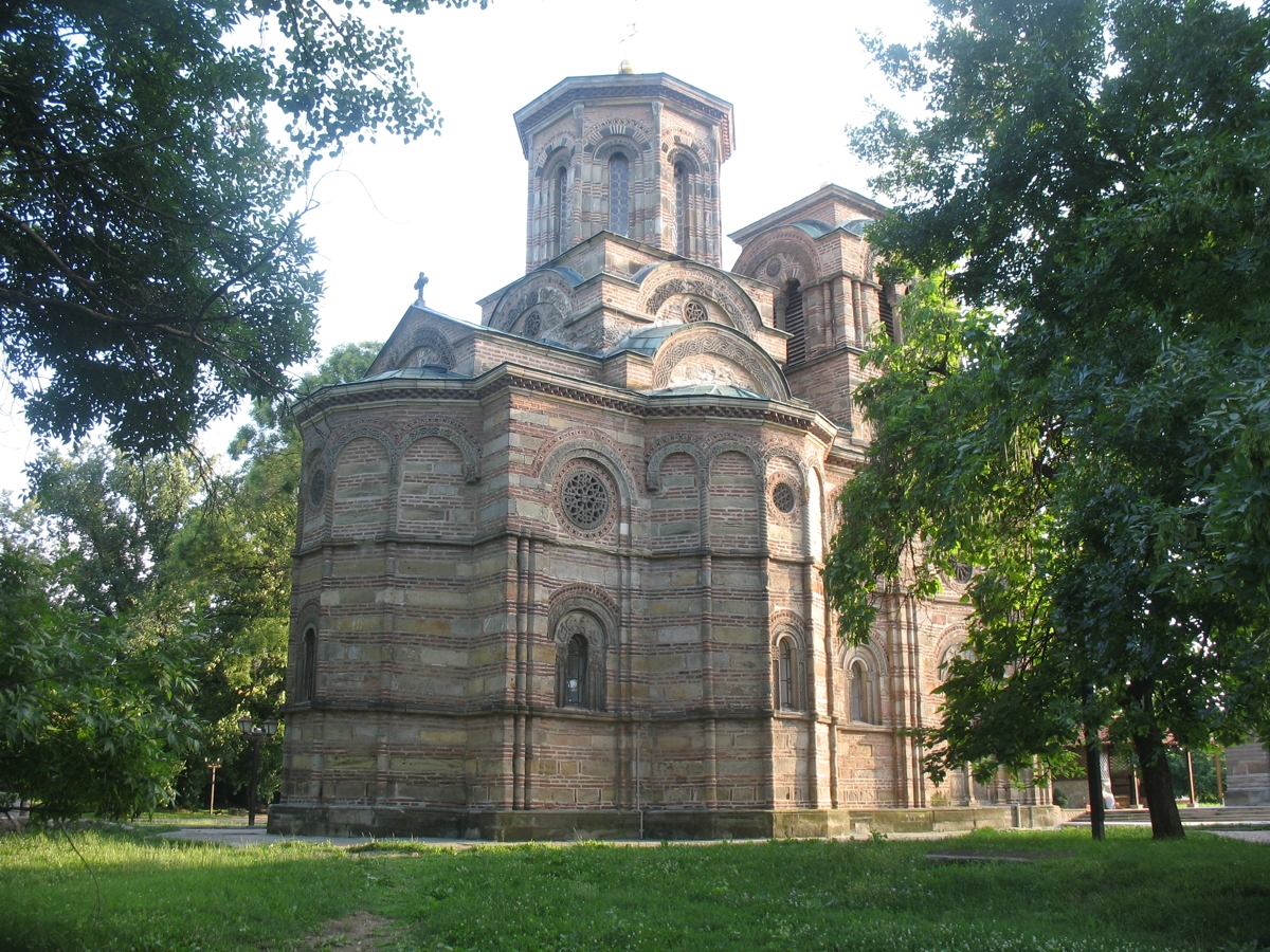 Crkva (church) Lazarica in Kruševac fortress in Kruševac, Serbia.